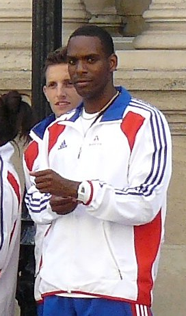 Ronald Pognon, au retour des championnats d'Europe de Barcelone, reçu à l'Élysée le 3 août 2010.